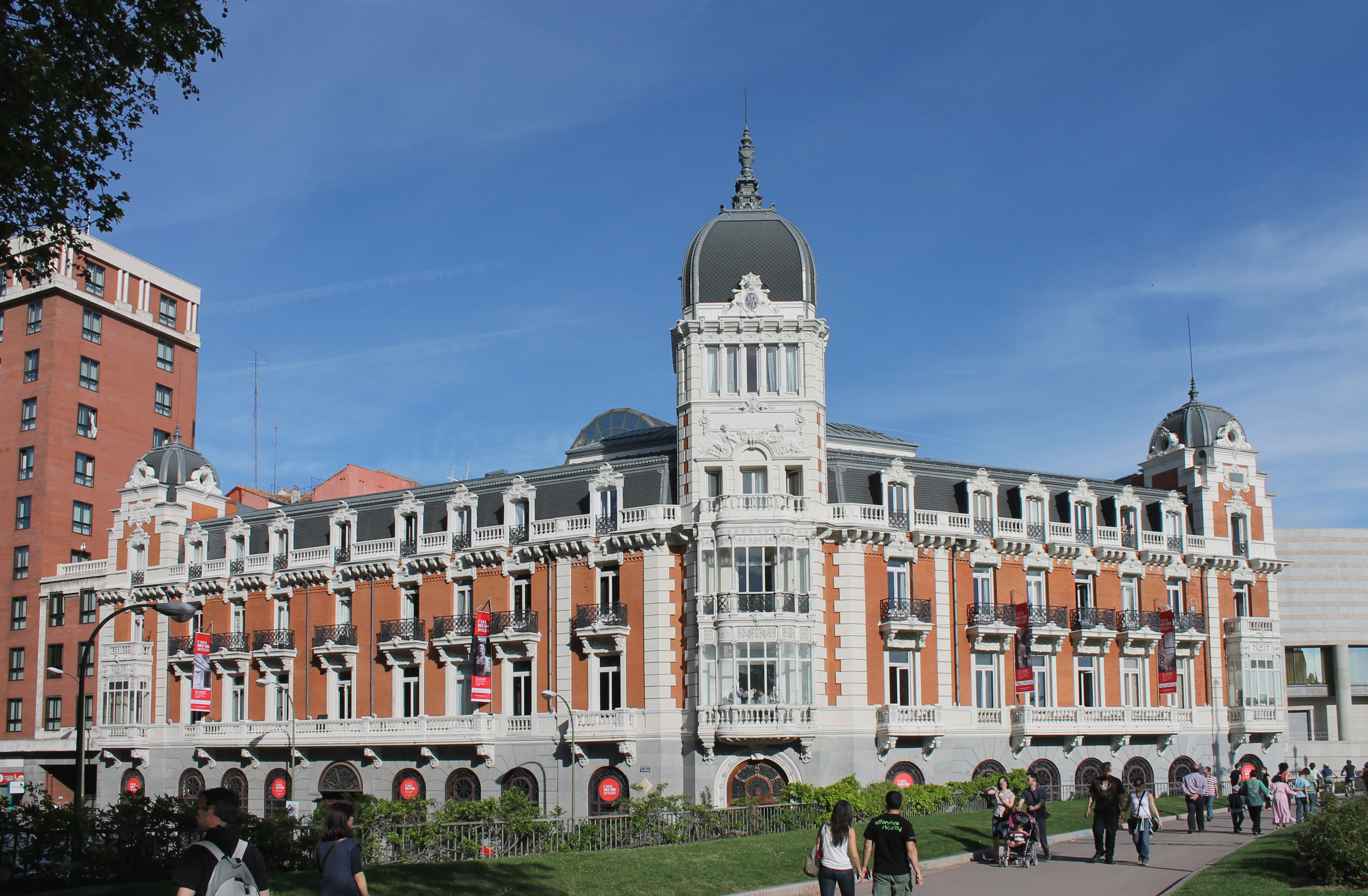 Façade of the headquarters of the Royal Asturian Mining Company in Madrid (Spain).